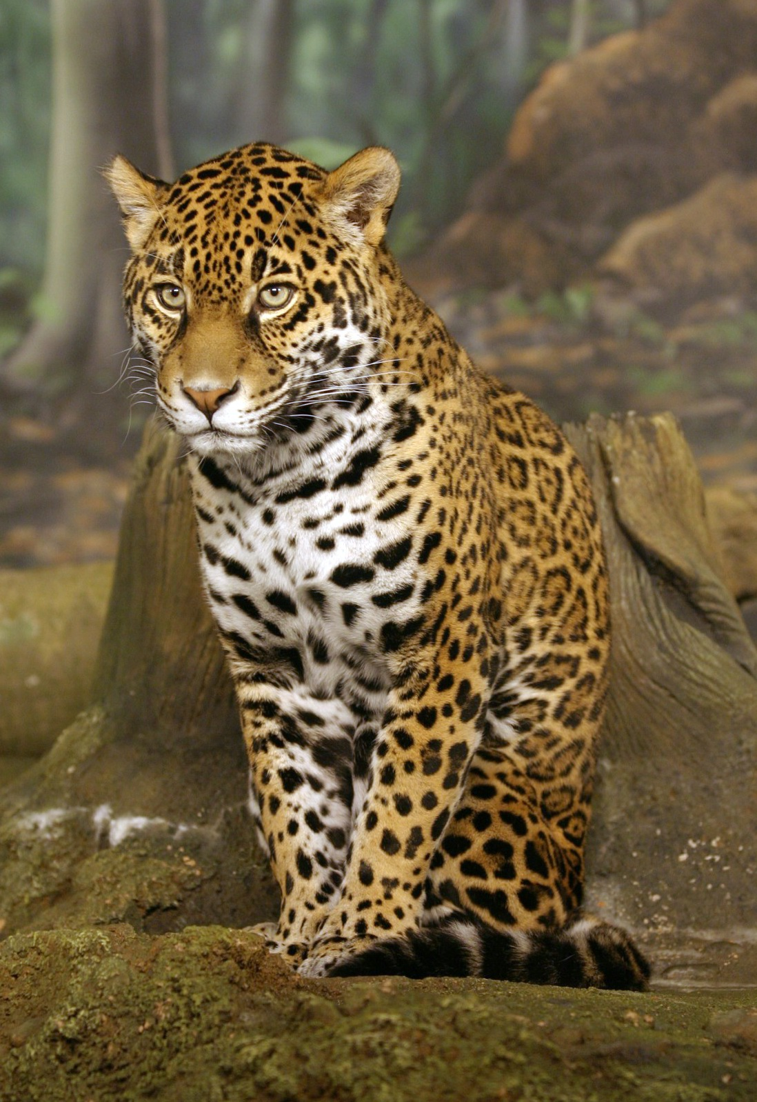 A Jaguar (Panthera onca) at the Milwaukee County Zoological Gardens in Milwaukee, Wisconsin.